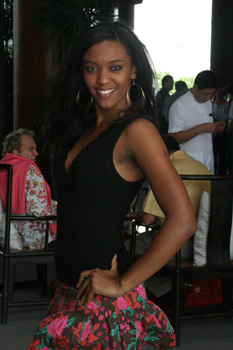 Miss Namibia 2007 - Marichen Jolandi Luiperth in Miss World 2007, Sanya, China